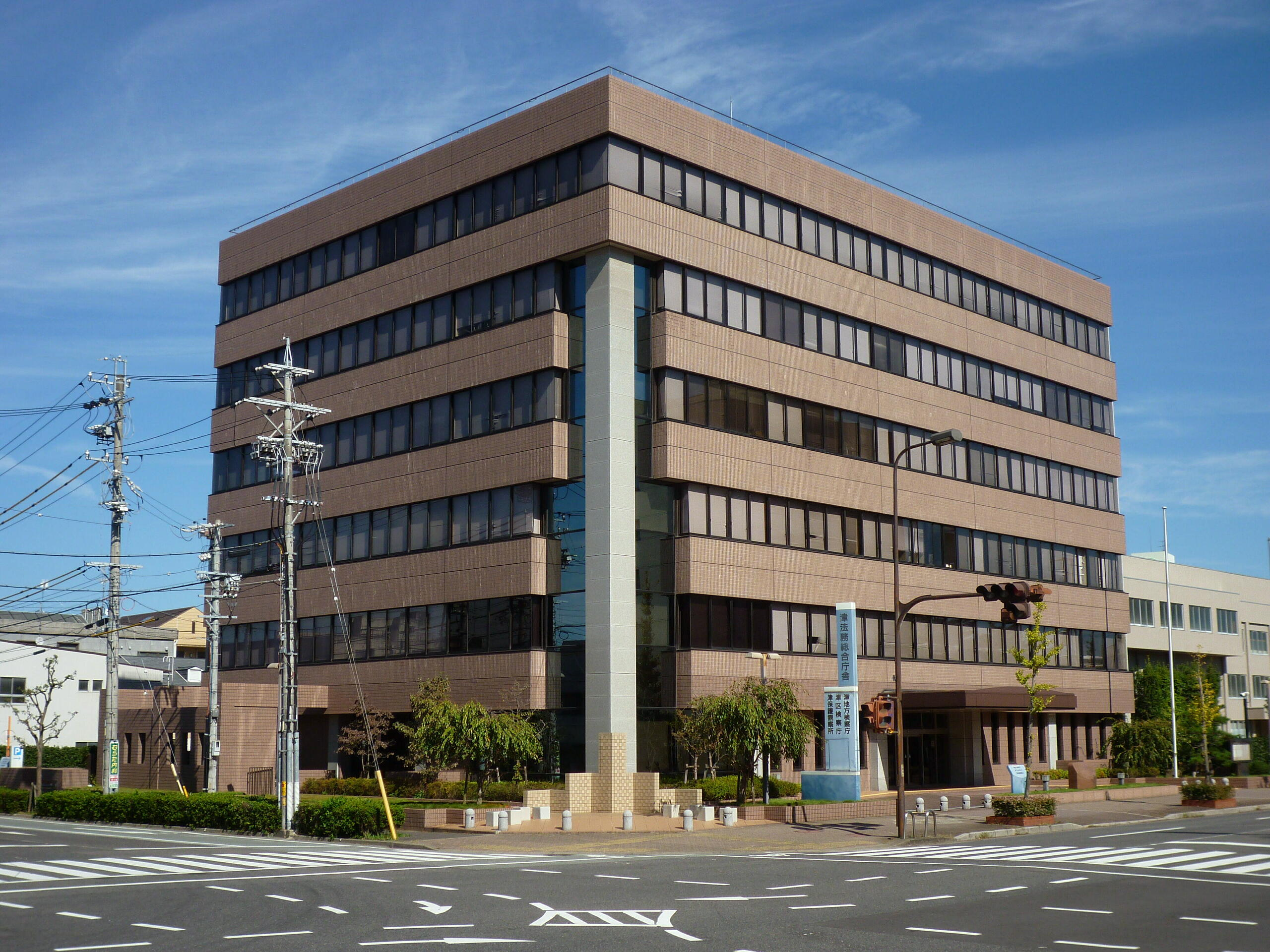 The "Tsu District Public Prosecutors Office" in Tsu, Mie, Japan.